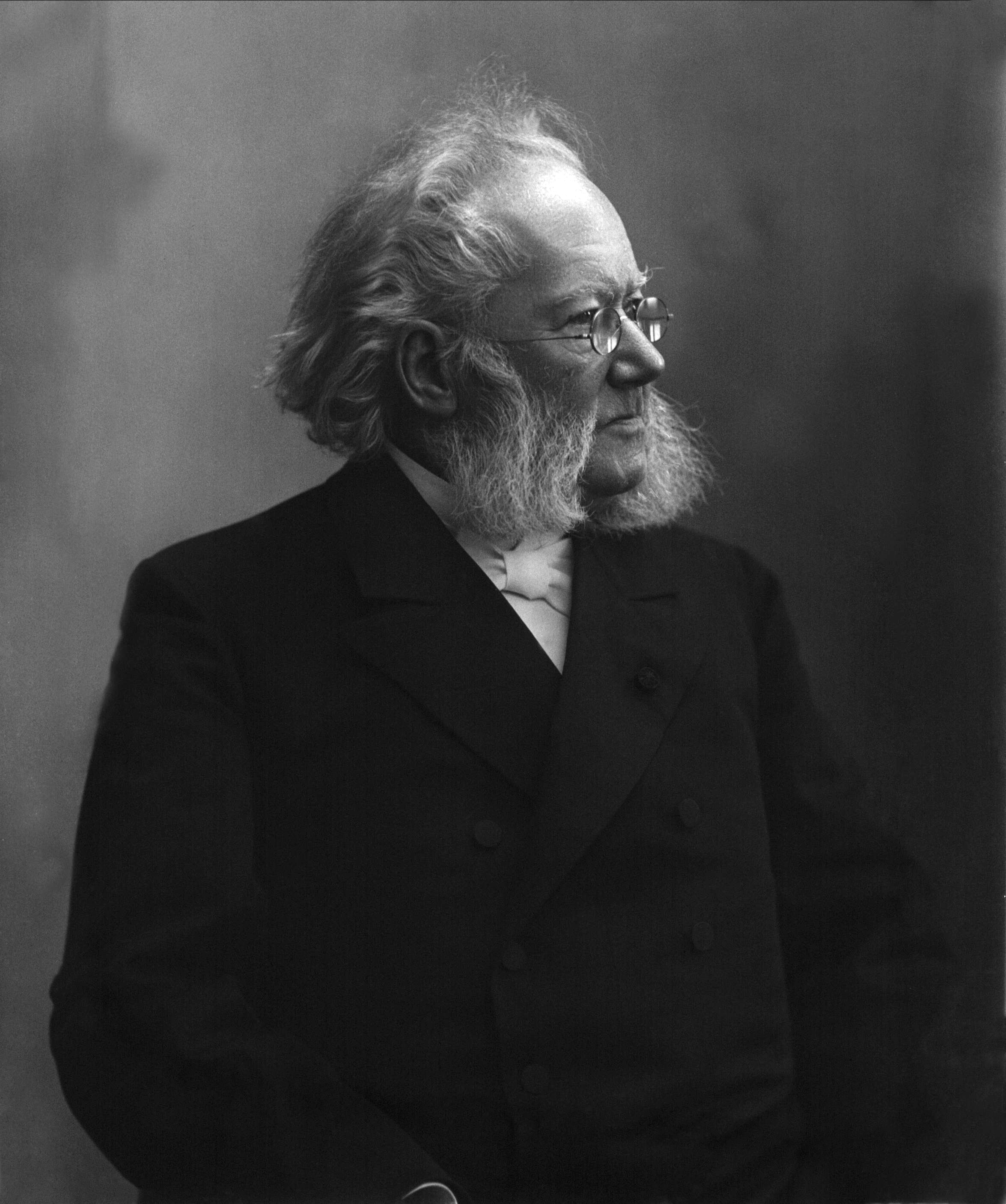 Restoration of File:Henrik Ibsen by Gustav Borgen NFB-19778.jpg: Henrik Ibsen by Gustav Borgen, from the collection of the Norsk folkemuseum